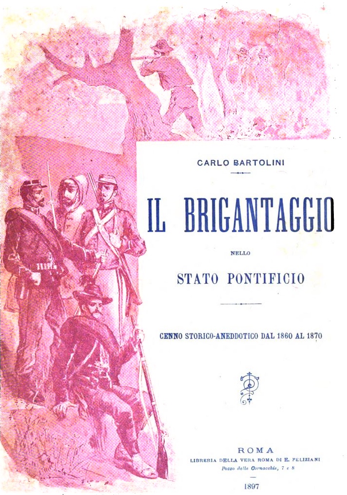 cover of original Carlo Bartolini' books :Il brigantaggio nello stato pontificio""